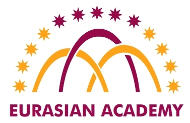 Eurasian Academy logo